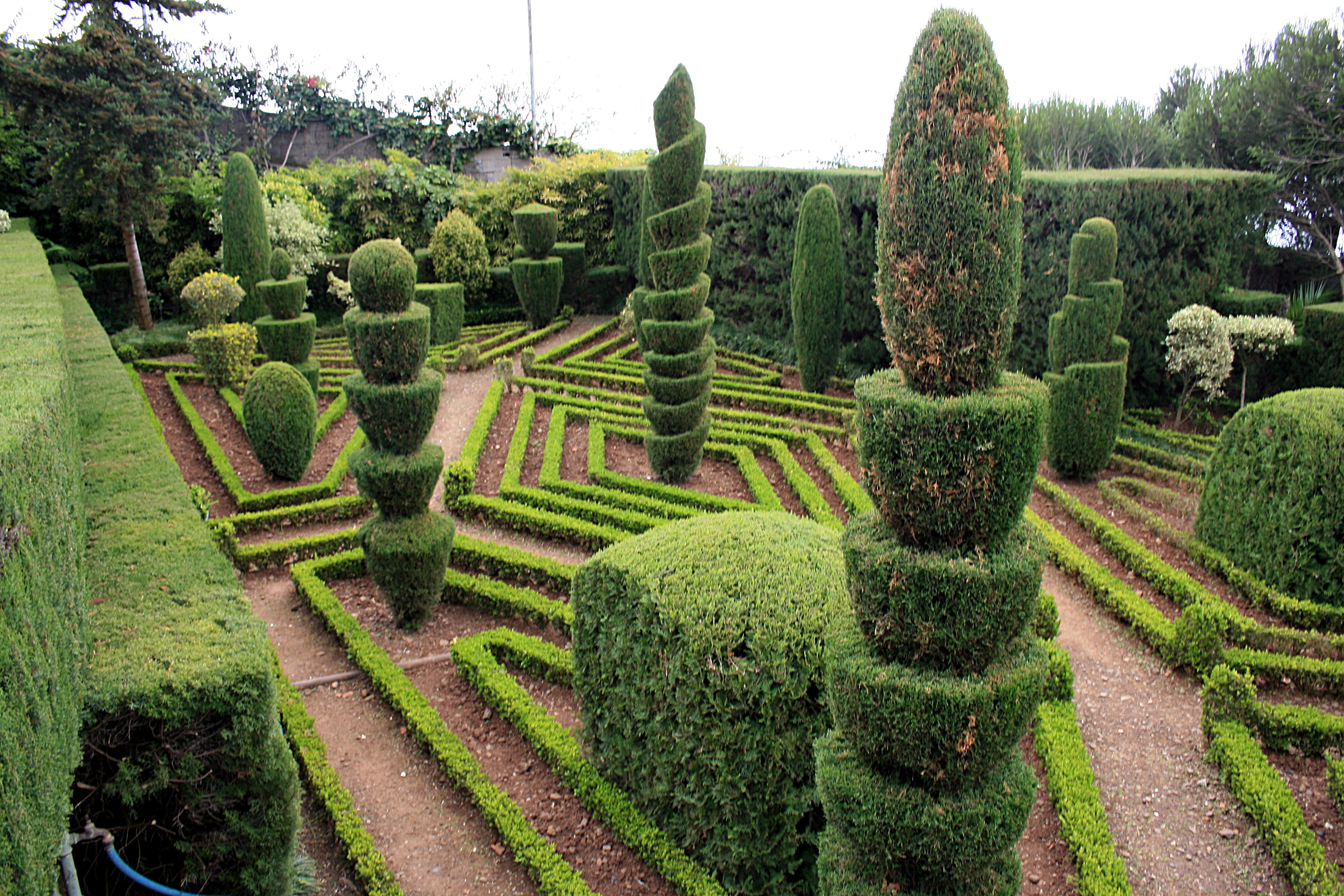 The Parterre and Topiary garden designed by Édouard André, at the Jardim Botânico da Madeira - Madeira island - Portugal.